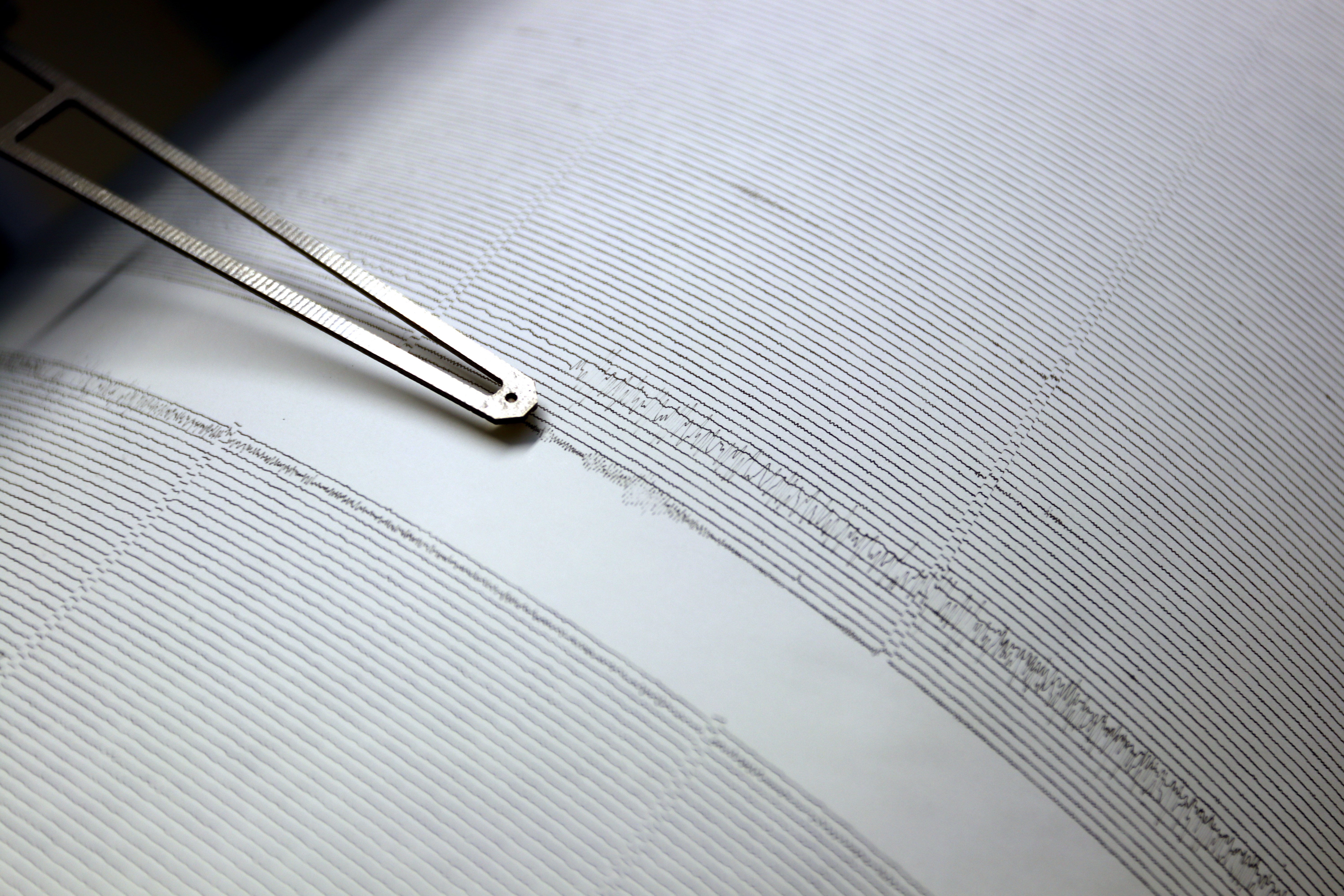 Part of the historical seismometer with the seismogram, which has been used at the Institute of Geophysics of the Czech Academy of Science.